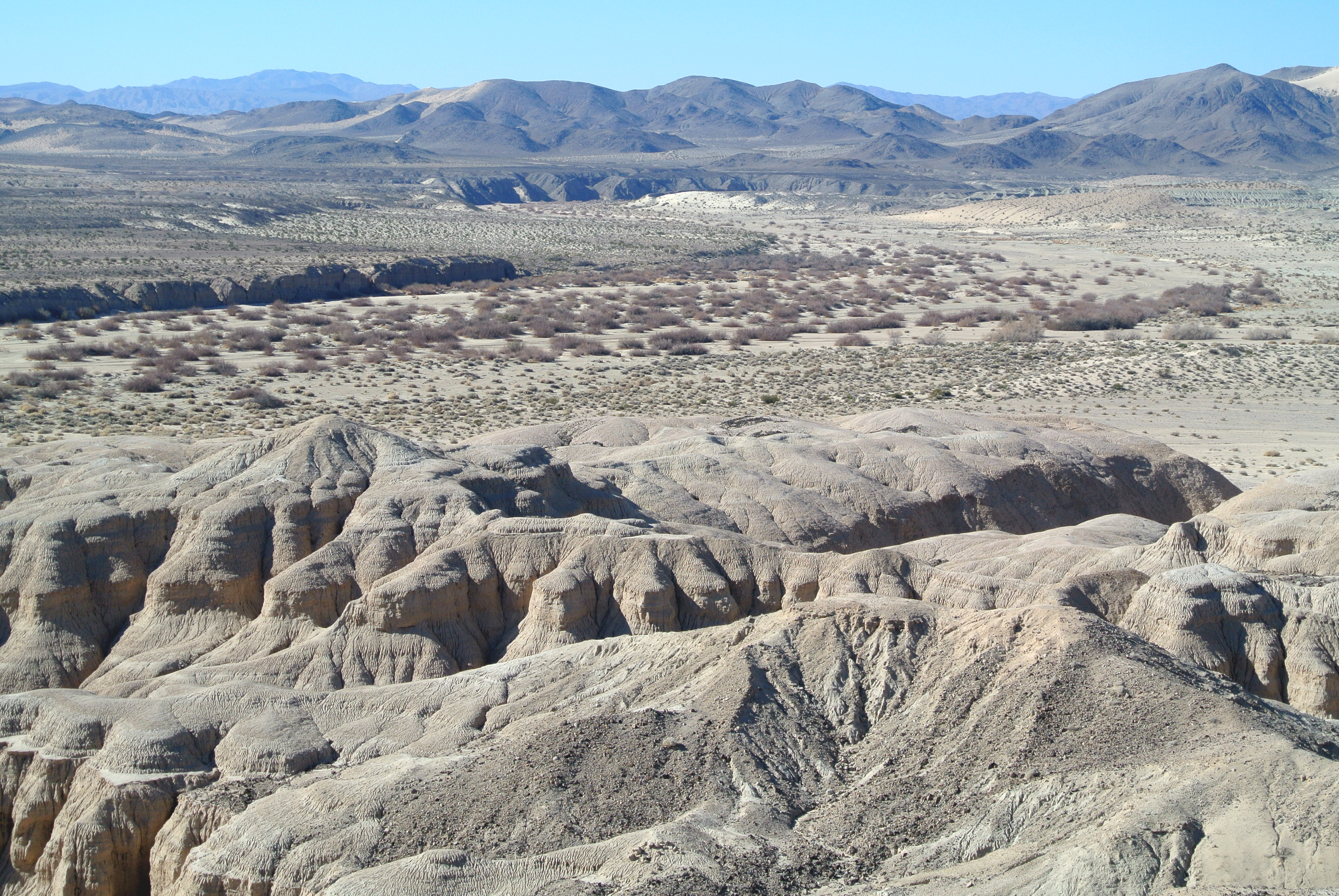 The Mojave River wash — cutting through prehistoric Lake Manix sediments in the Mojave Desert, San Bernardino County, southern California.